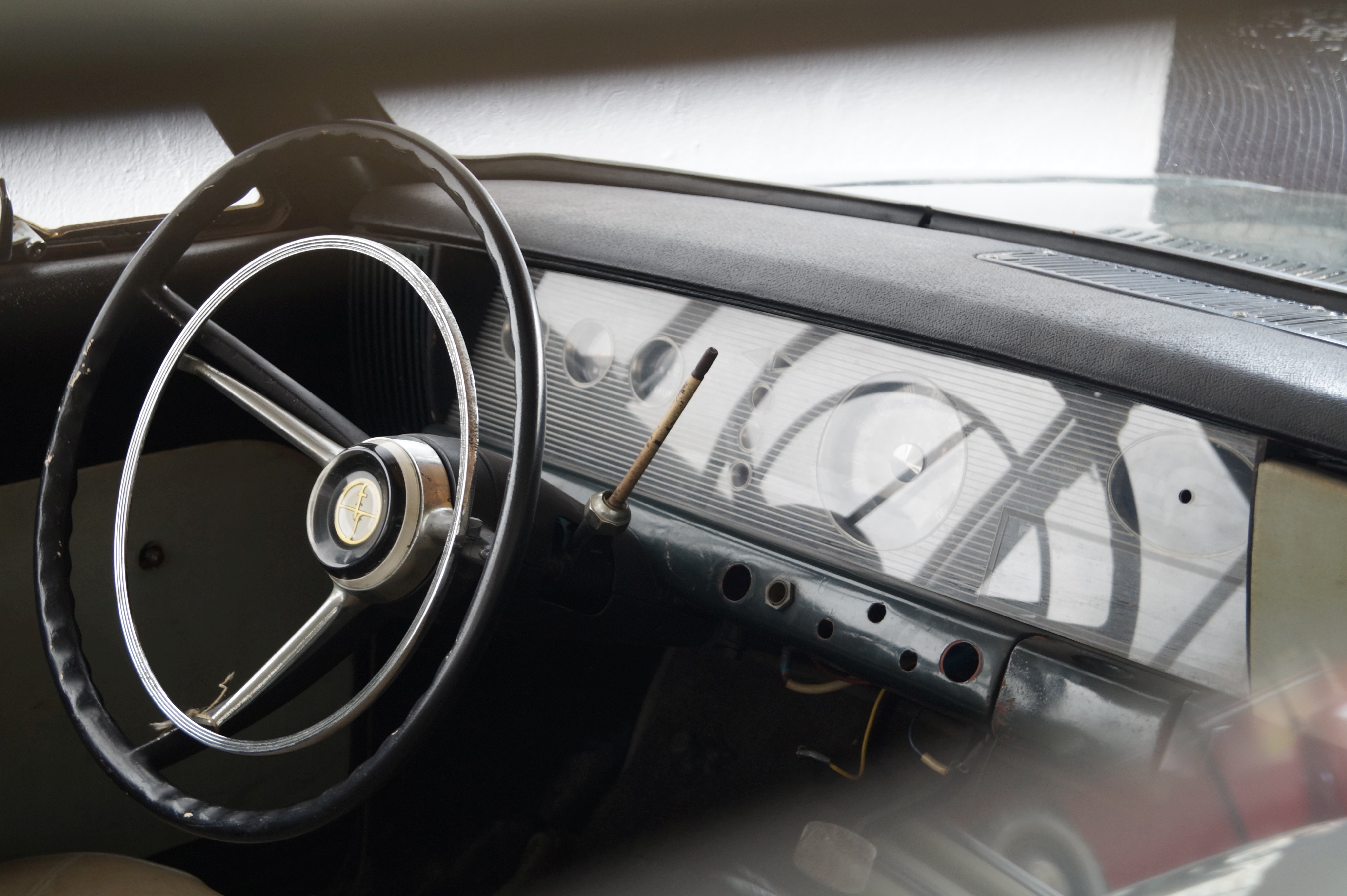 The making of this document was supported by Wikimedia Polska Association, within Wikigrant no. WG 2016-18. English | polski | +/− Wnętrze FSO Warszawy 210 w Muzeum w Chlewiskach